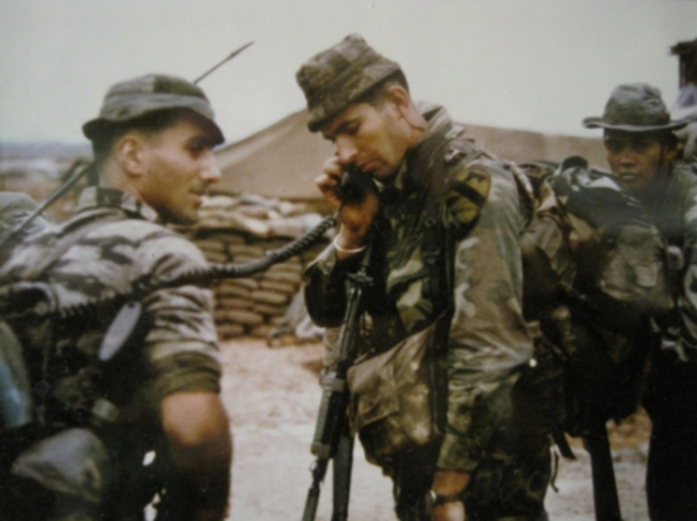 Doug on Radio 2